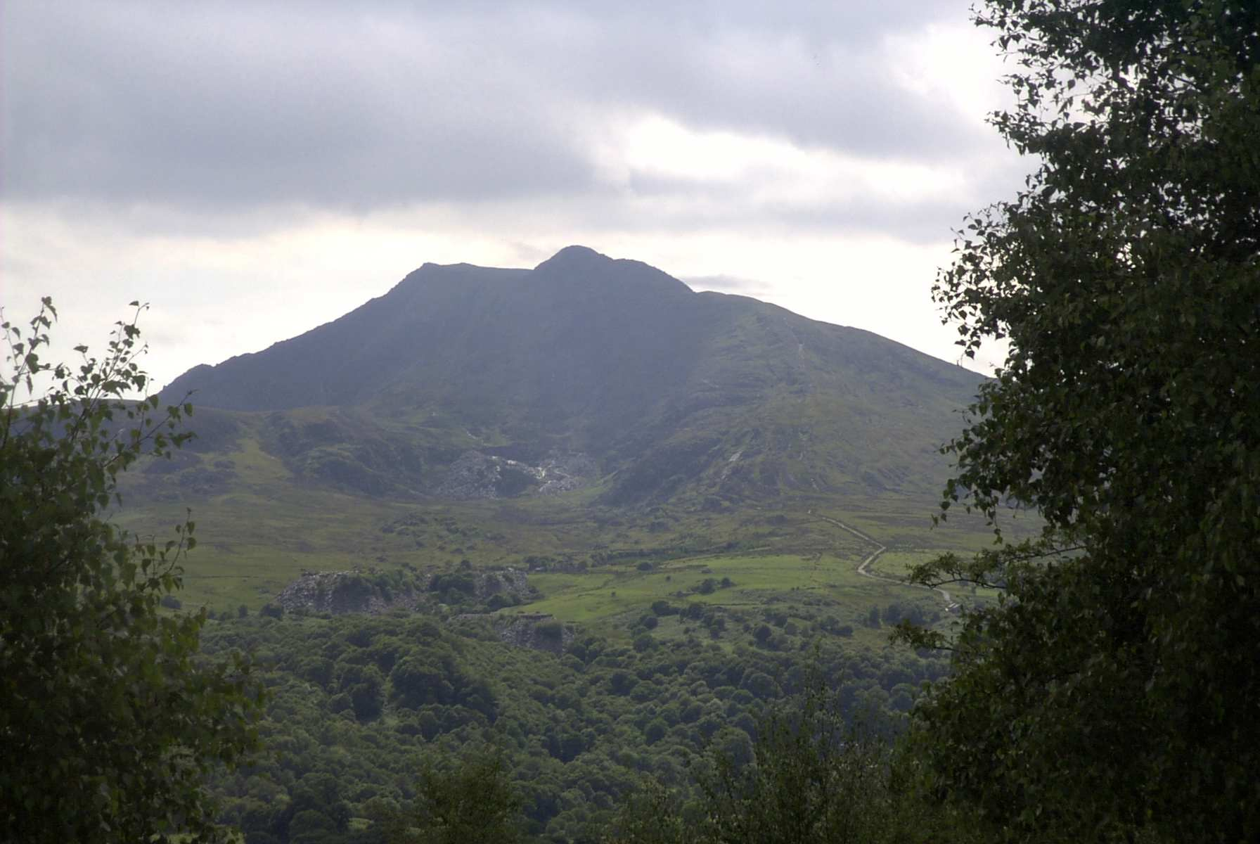 Moel Siabod from above Ty Hyll (The Ugly House), it also shows the old slate mines above the village of Pont Cyfyng.